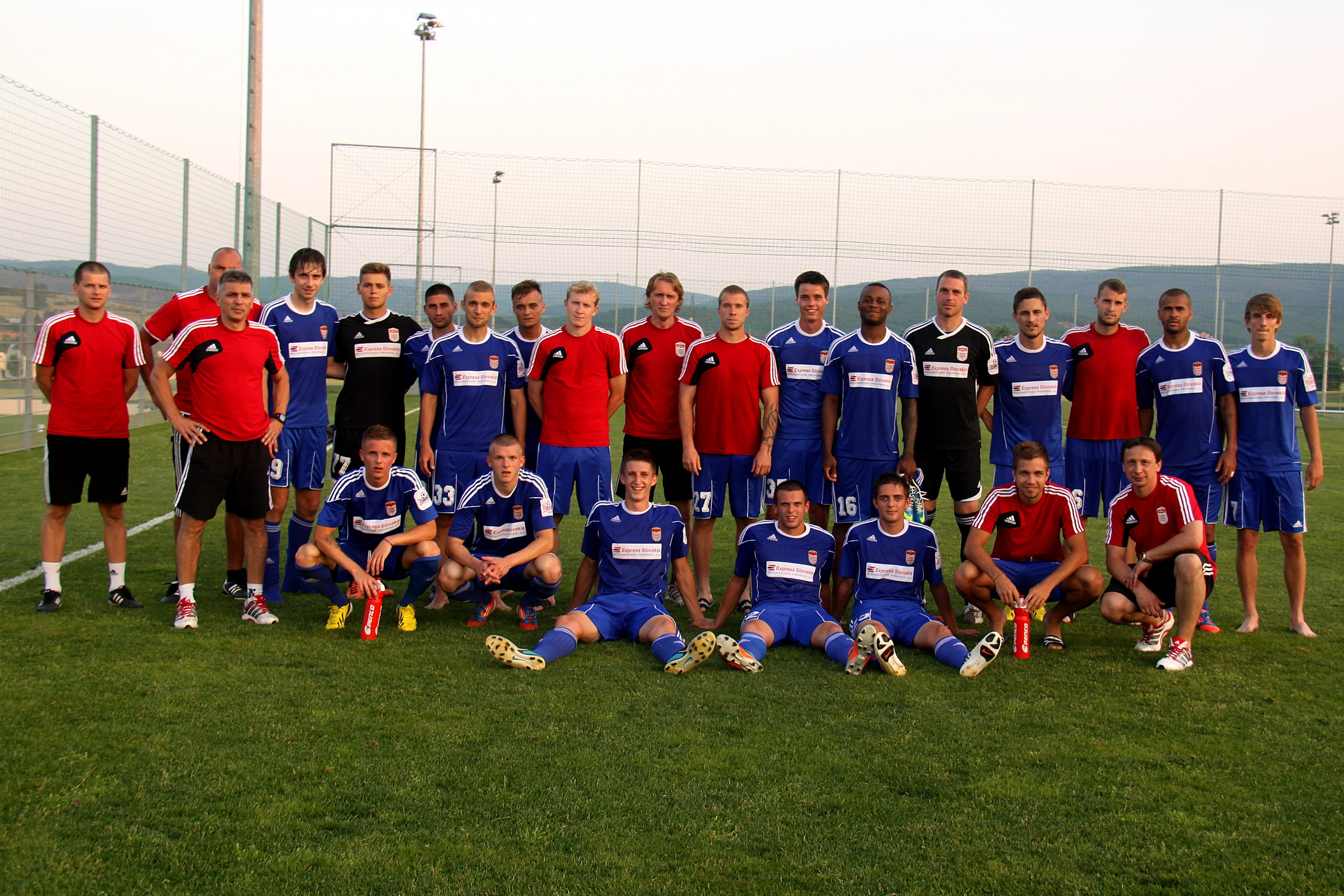 Friendly match SV Mattersburg vs FK Dukla Banská Bystrica (2:2) at 2013-06-21 in Mattersburg. – The photo shows the team of FK Dukla Banská Bystrica.